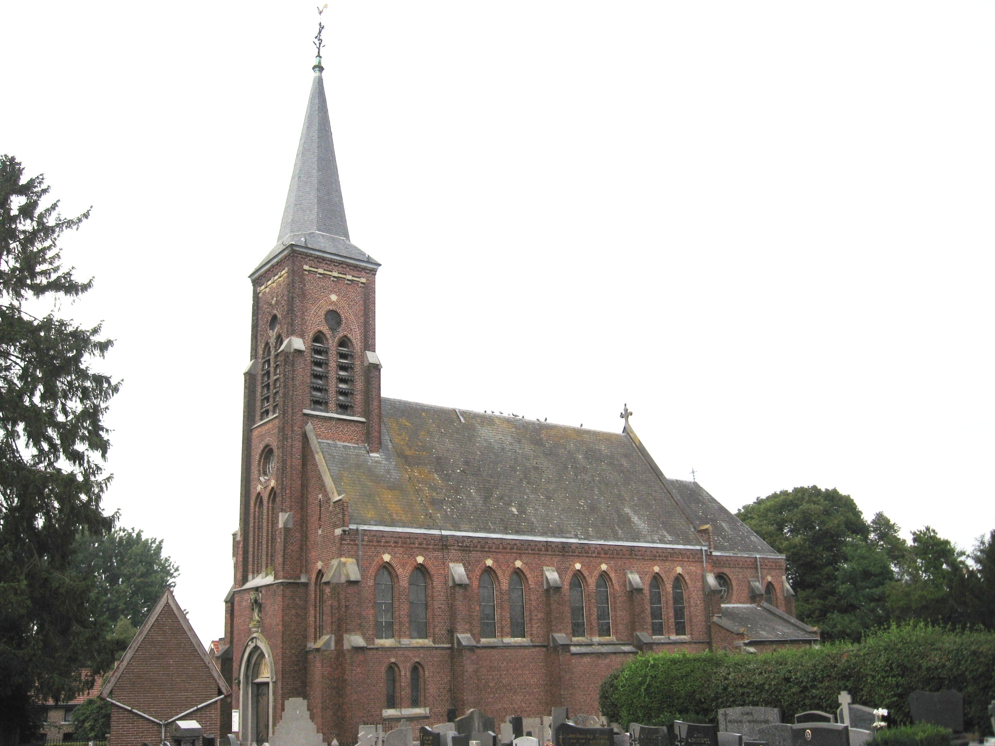 Church of the Annunciation in Klein-Gelmen, Heers, Limburg, Belgium